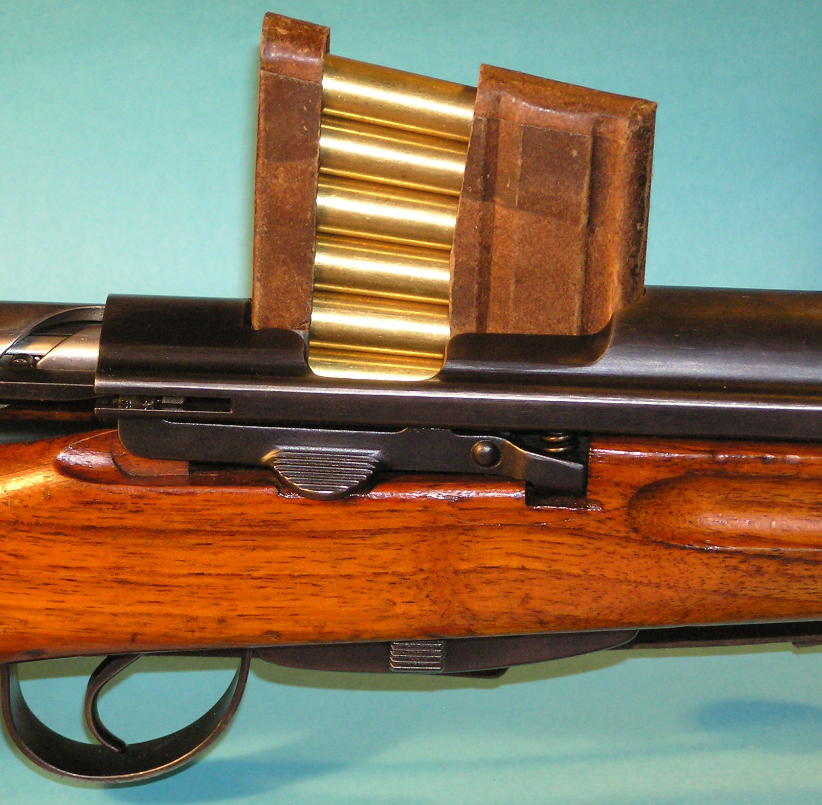 A loaded K31 charger clip inserted into the breech of a Swiss Karabiner 31 rifle.